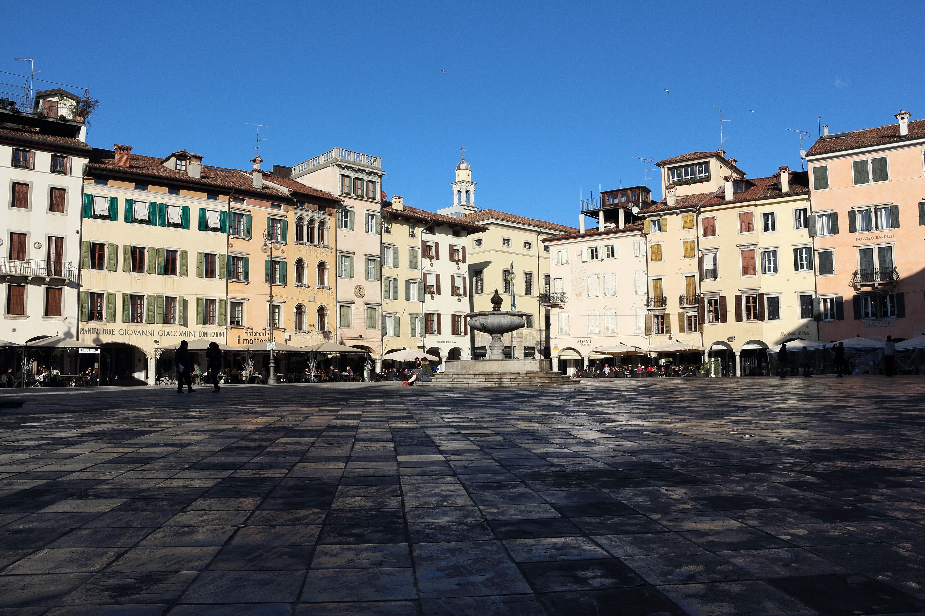 Piazza Giacomo Mateotti Udine